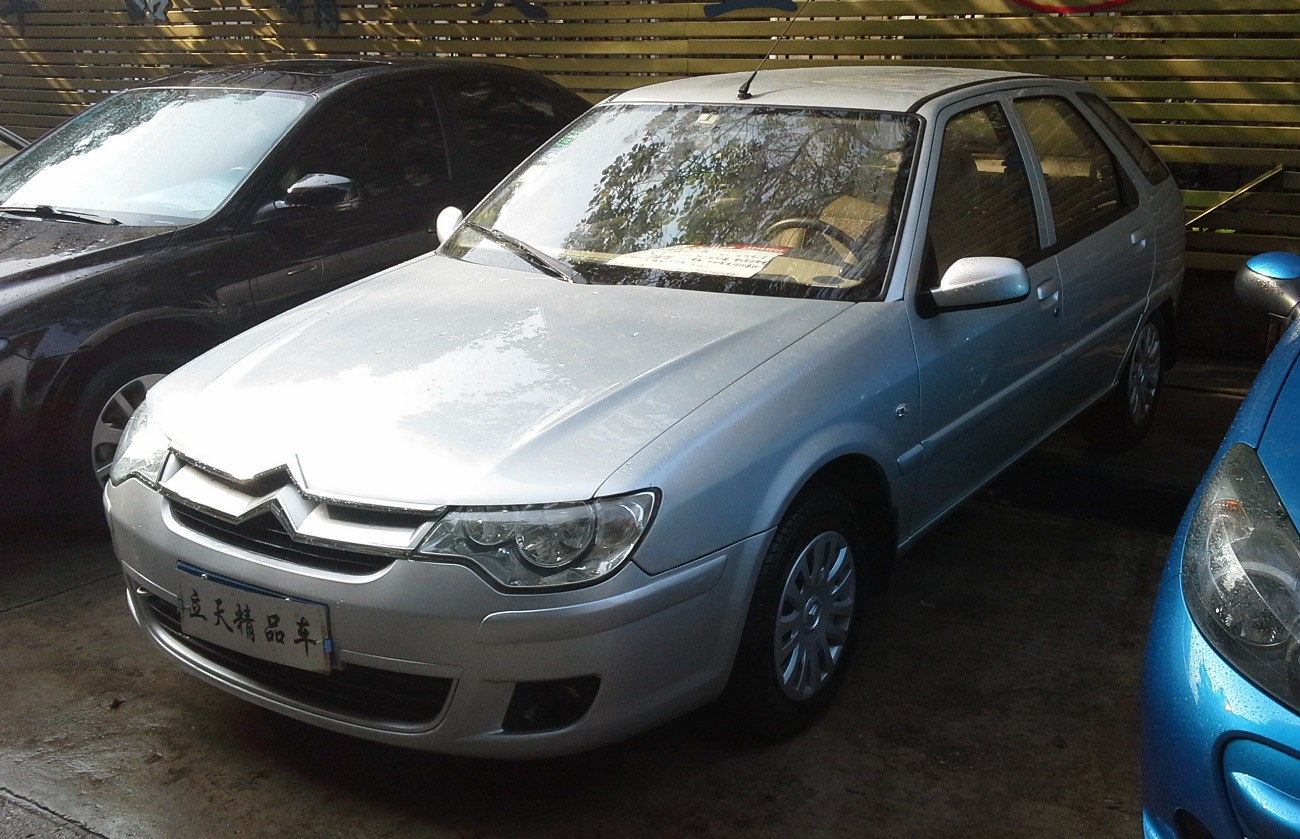 Citroën C-Elysée hatch photographed in Wuhan, Hubei province, China.